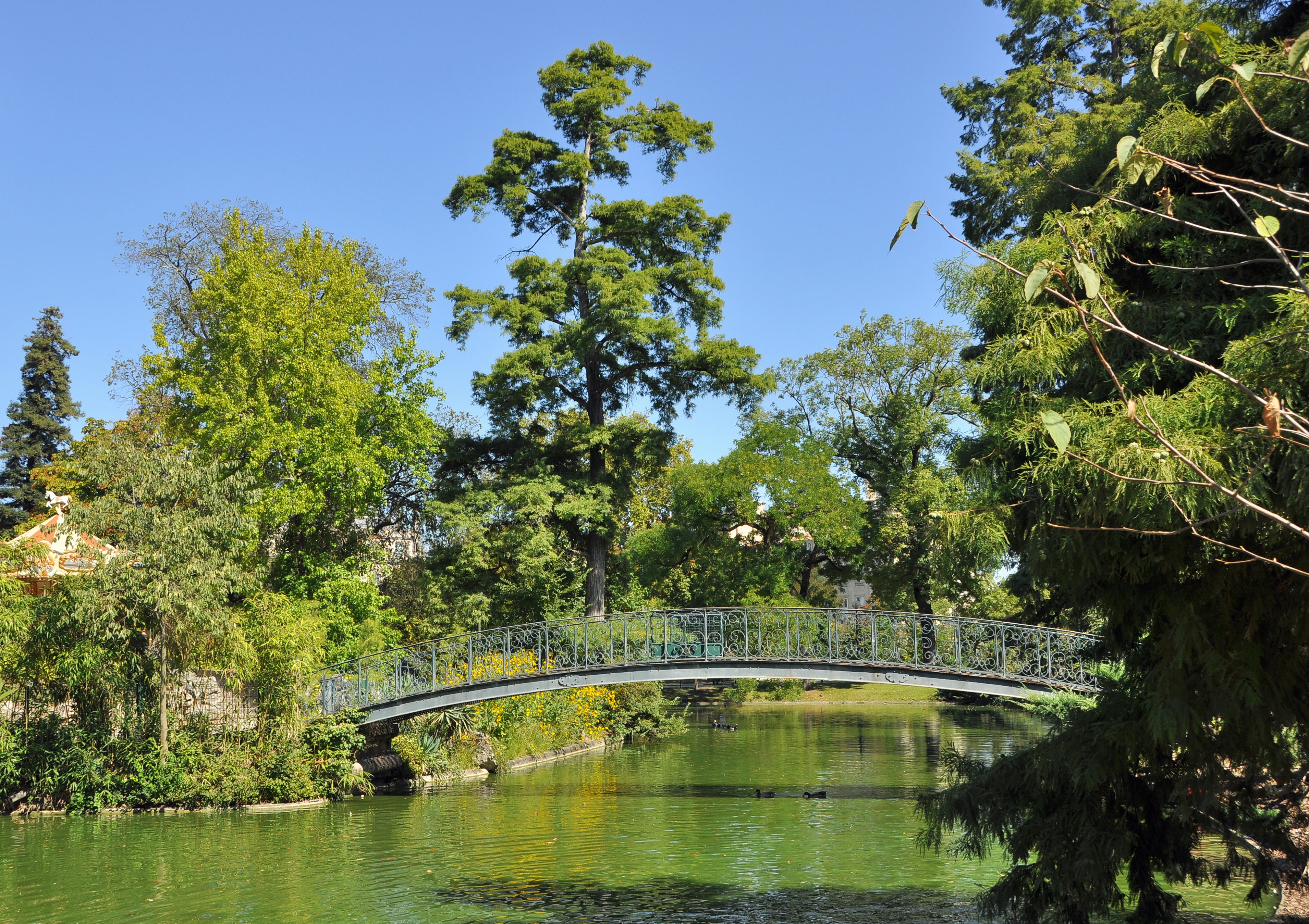 Bordeaux (France): the Jardin Public